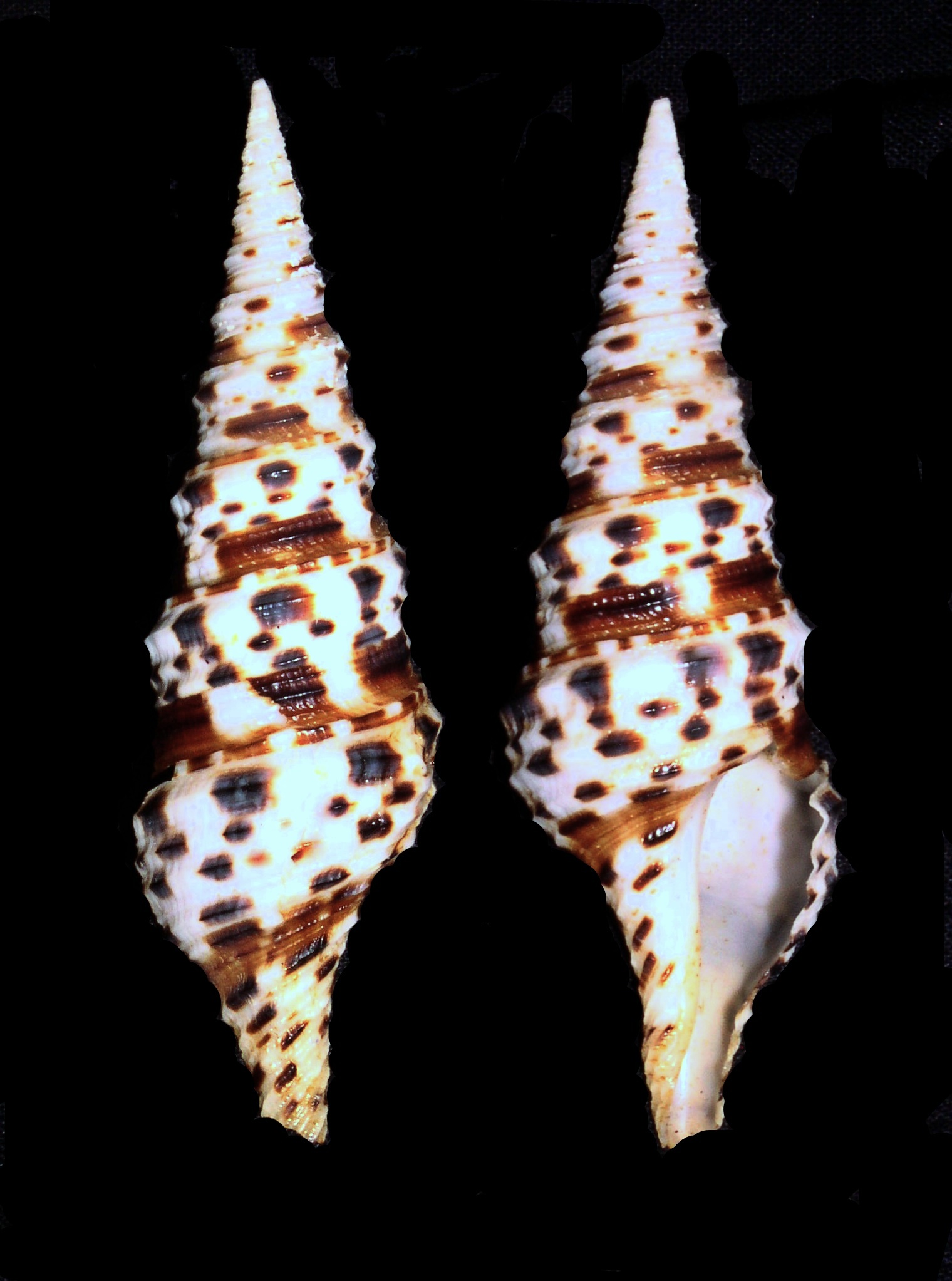 shell of Turris babylonia